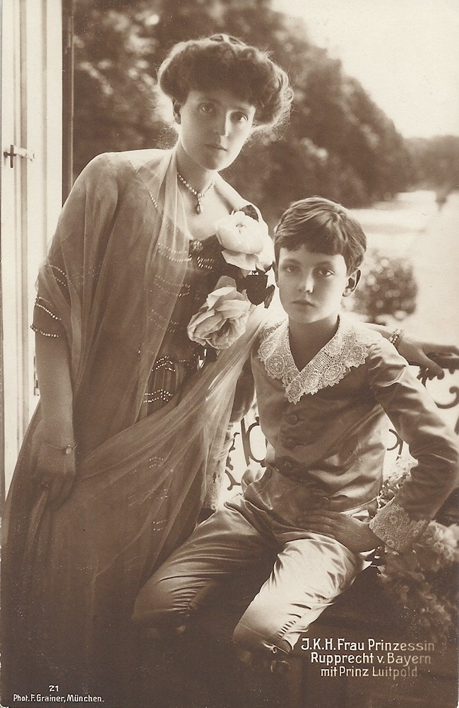 Duchess Marie Gabrielle in Bavaria with her eldest son Luitpold, Hereditary Prince of Bavaria